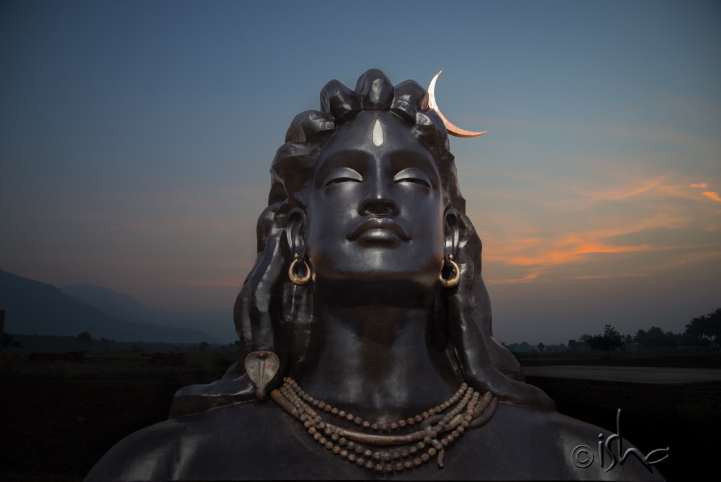 Adiyogi Statue at the Isha Yoga Centre.